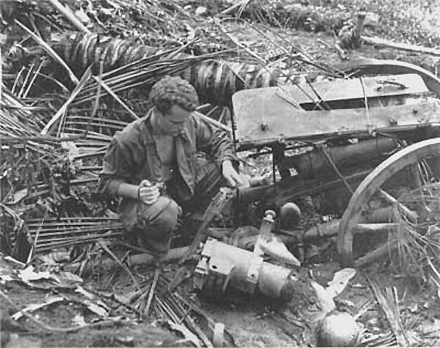 Cpl Robert J. Hallahan, a member of the 1st Marine Division band, examines the shattered remains of a Japanese 75mm gun used in the defense of Mount Schleuther and rigged as a booby trap when the enemy withdrew.